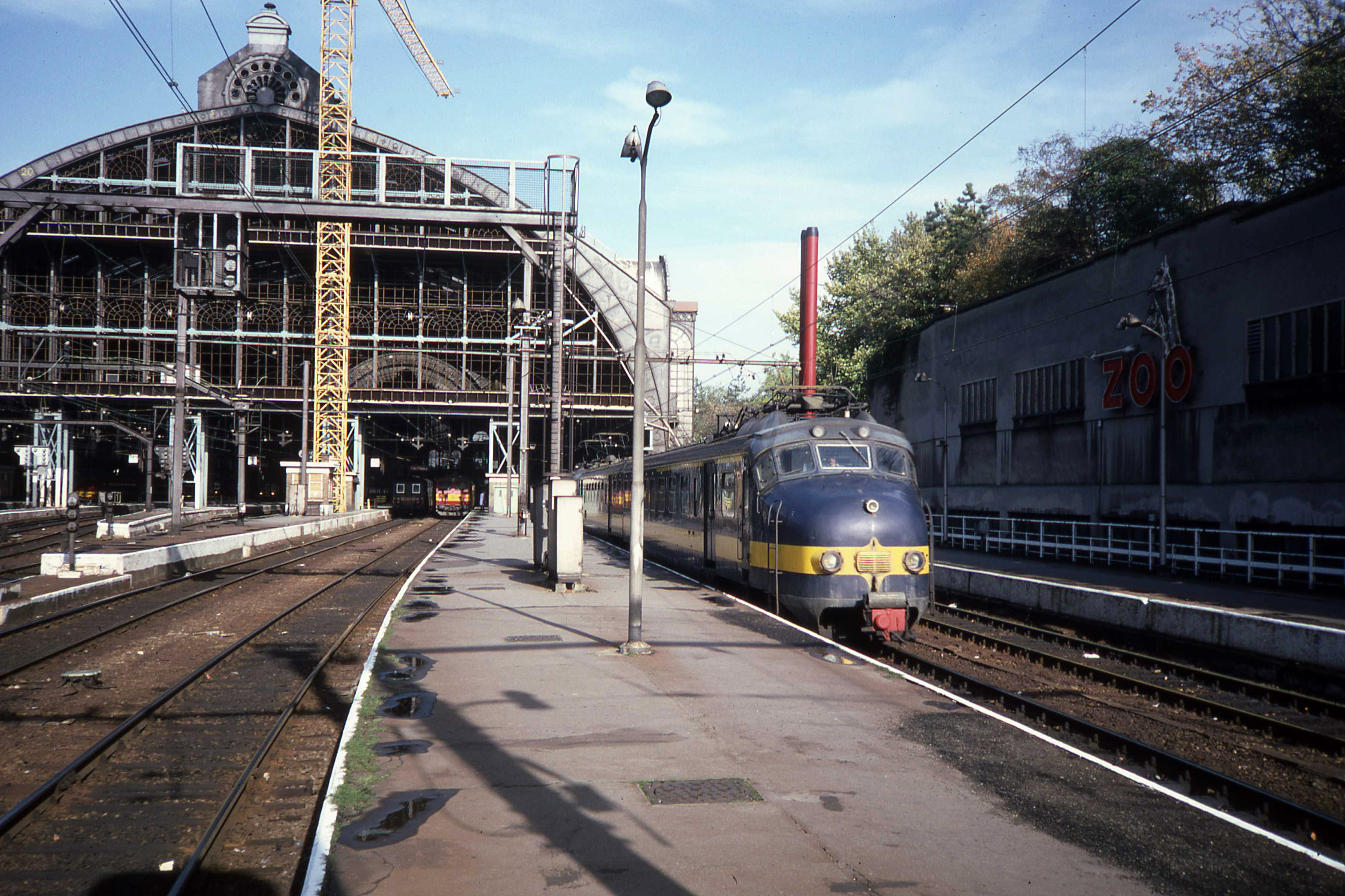 Beneluxtrain composed of dutch Mat '54 bicourant multiple units in Antwerp central in 1986. The Beneluxtrains reversed in this station. The facade is being renovated.